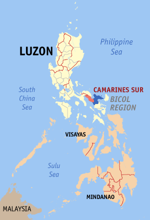 Map of the proposed location of Nueva Camarines by House Bill 4820.